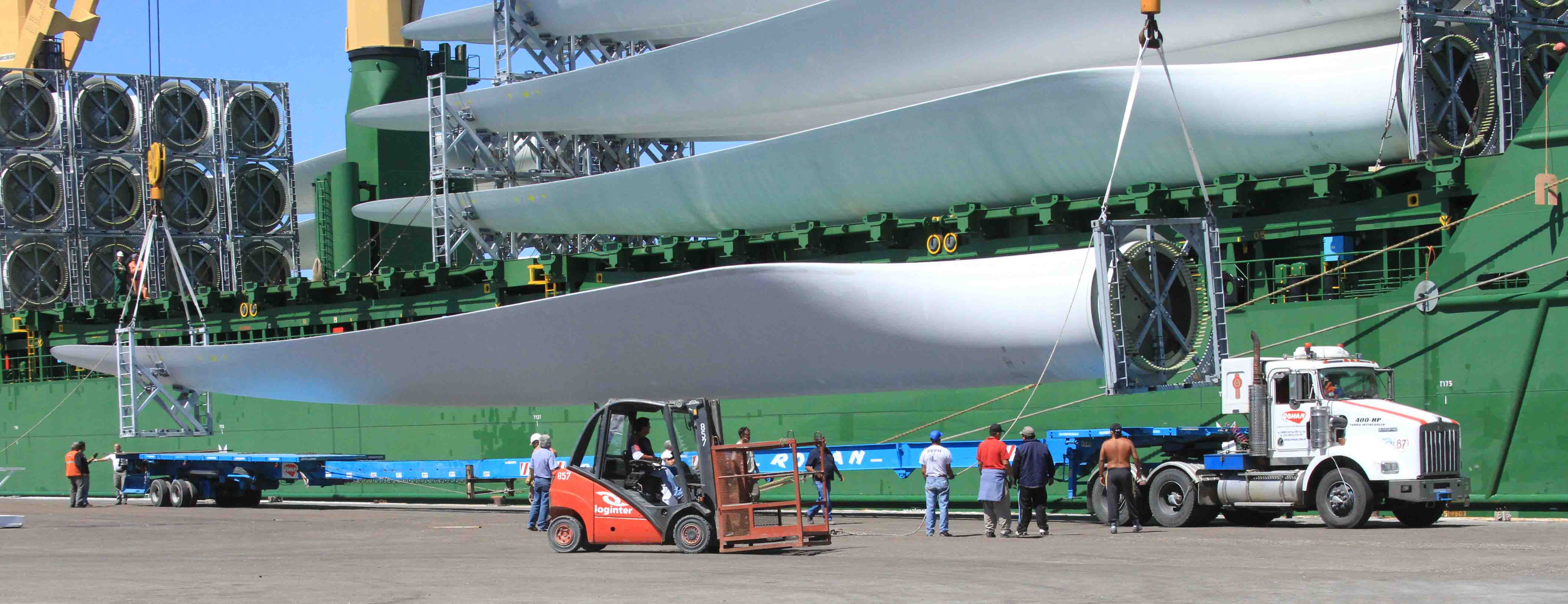 Alstom ECO 100 blades